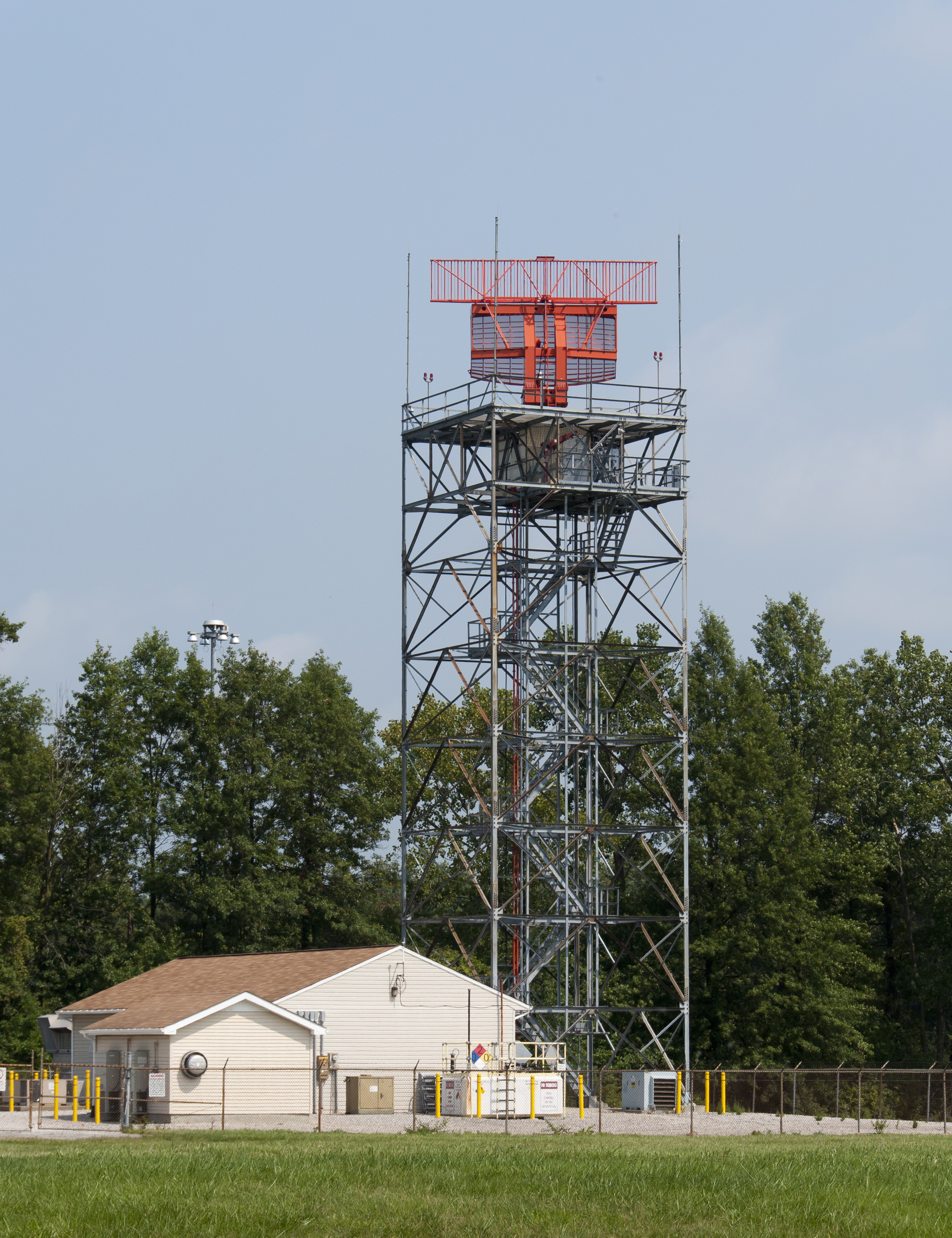 KCMH - John Glenn Columbus International Airport Radar.